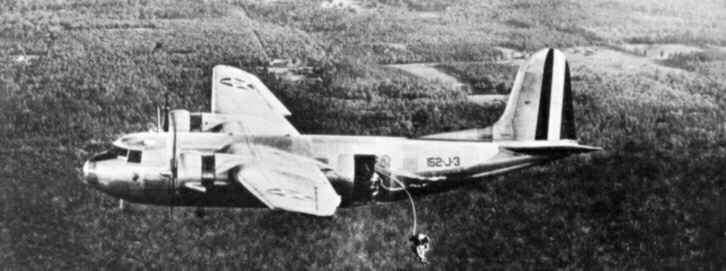 A U.S. Marine Corps Douglas R3D-2 from Marine Transport Squadron VMJ-152 dropping Marine paratroopers in 1941.